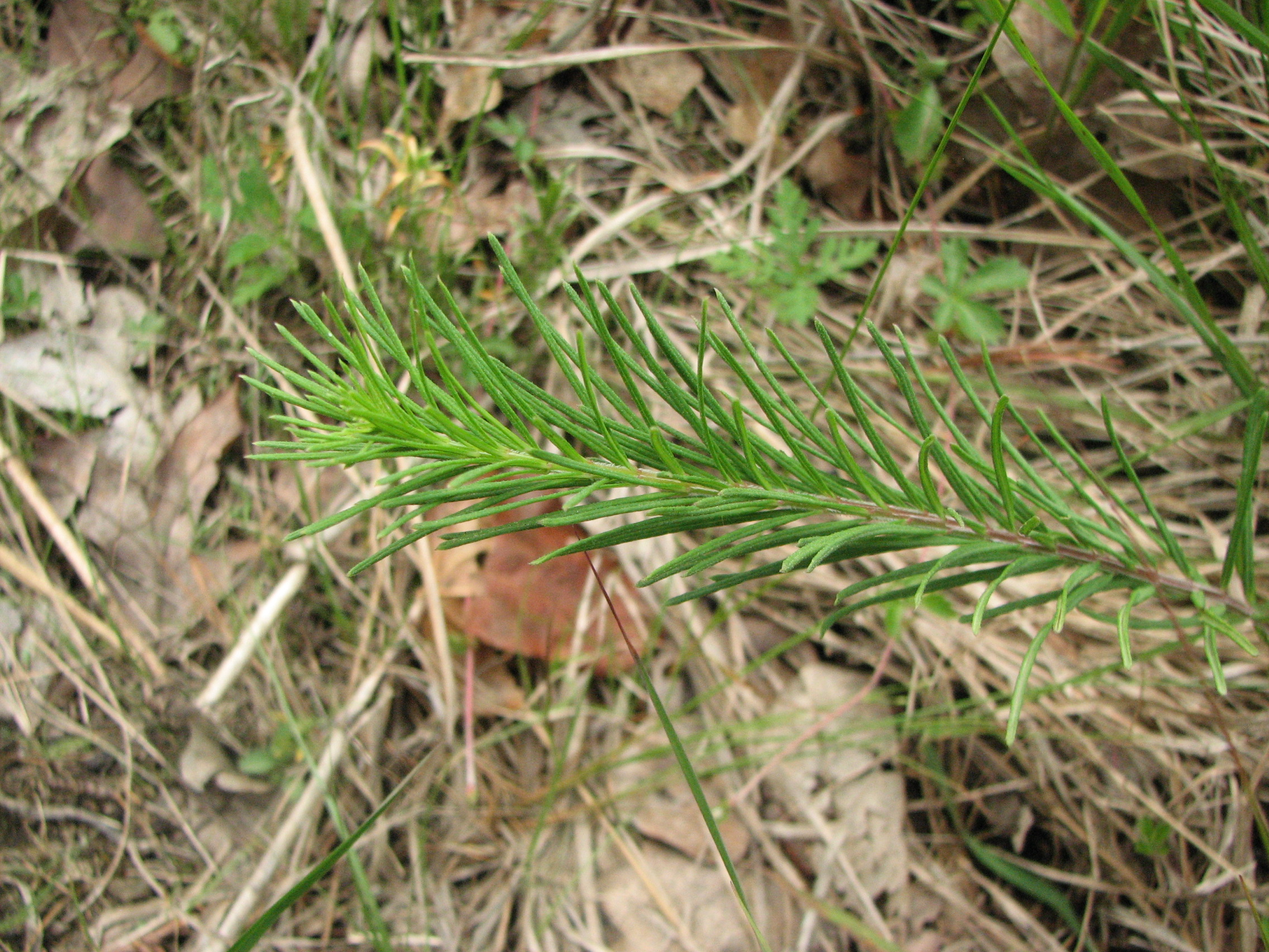 Asclepias verticillata (whorled milkweed) growing on serpentine barrens, Nottingham County Park, Nottingham, Pennsylvania.